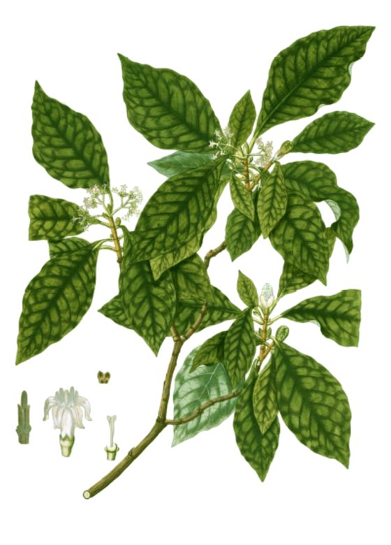 Illustration of Psychotria nervosa (Orig. Psychotria undata)